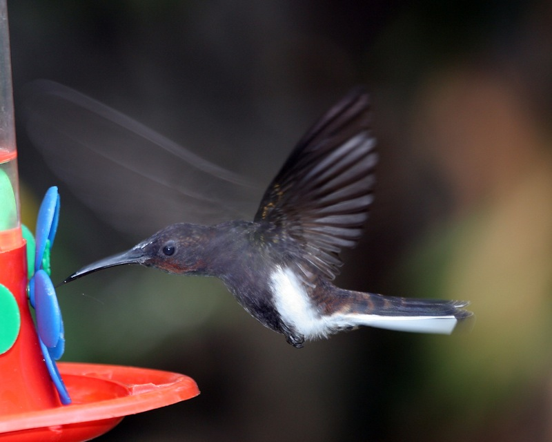 immature Black Jacobin (Florisuga fusca), from Iguasu Falls, Argentina 5th. April 2006